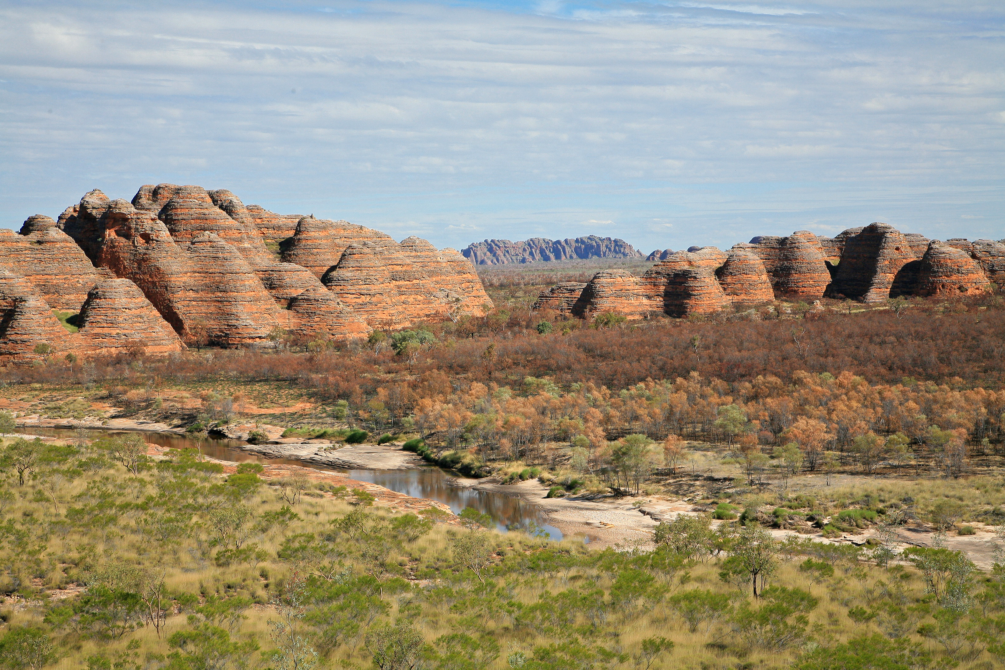 Purnululu National Park: Rock dome that rises 200 to 300 meters above the surroundings of an ancient riverbed. The park is located in the East Kimberley Region (Western Australia).